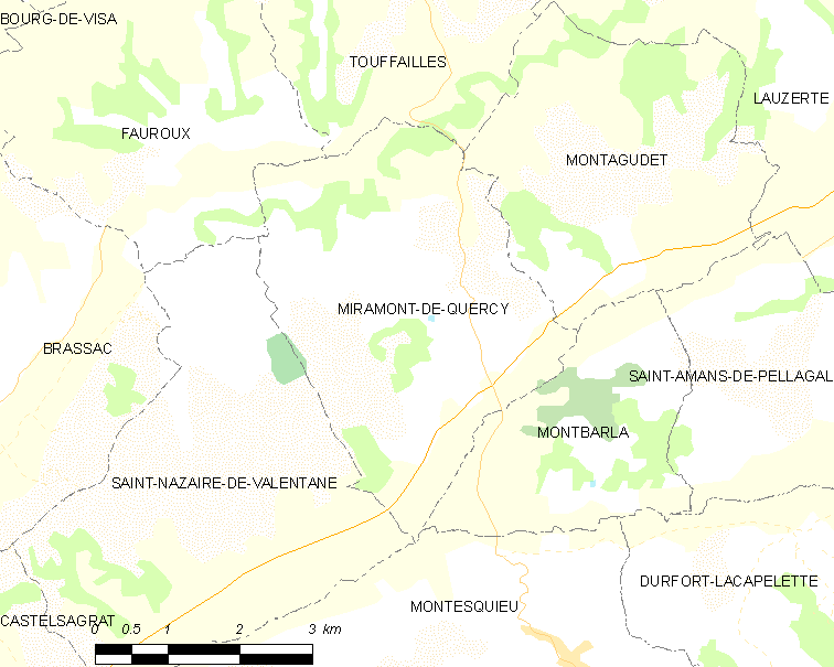 Map of French municipality Miramont-de-Quercy